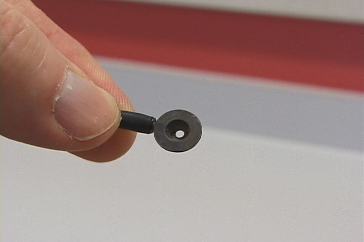 EEG electrode